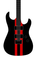 picture of body of Showmaster Rally Stripe guitar